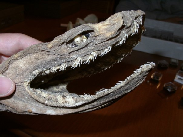 Chlamydoselachus anguineus extant